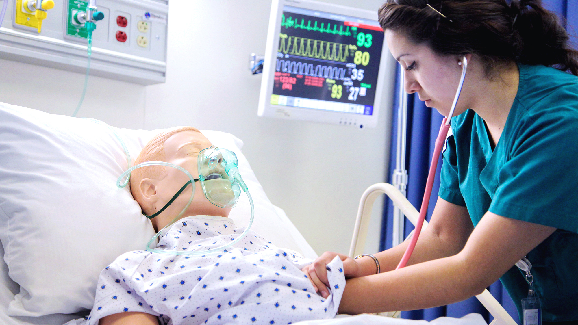 Students practice on high-fidelity simulation manikins that provide real-time and crisis feedback.